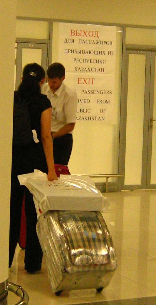 Russia, the Moscow Sheremeryevo Int'l Airport, terminal E, arrivals hall. The exit for passengers from Kazakhstan - now without any customs checking due to introducing of the Customs Union of Belarus, Kazakhstan and Russia.